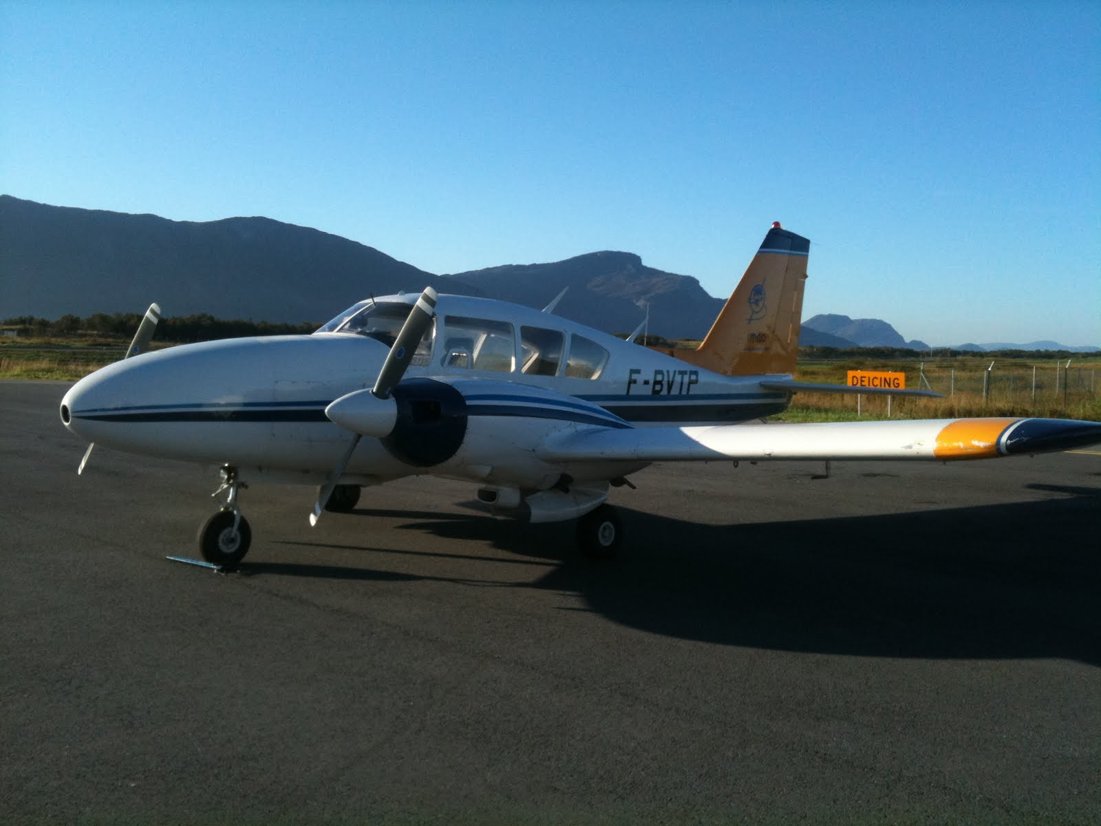 Imao's piper aztec at Brønnøysund AirPort